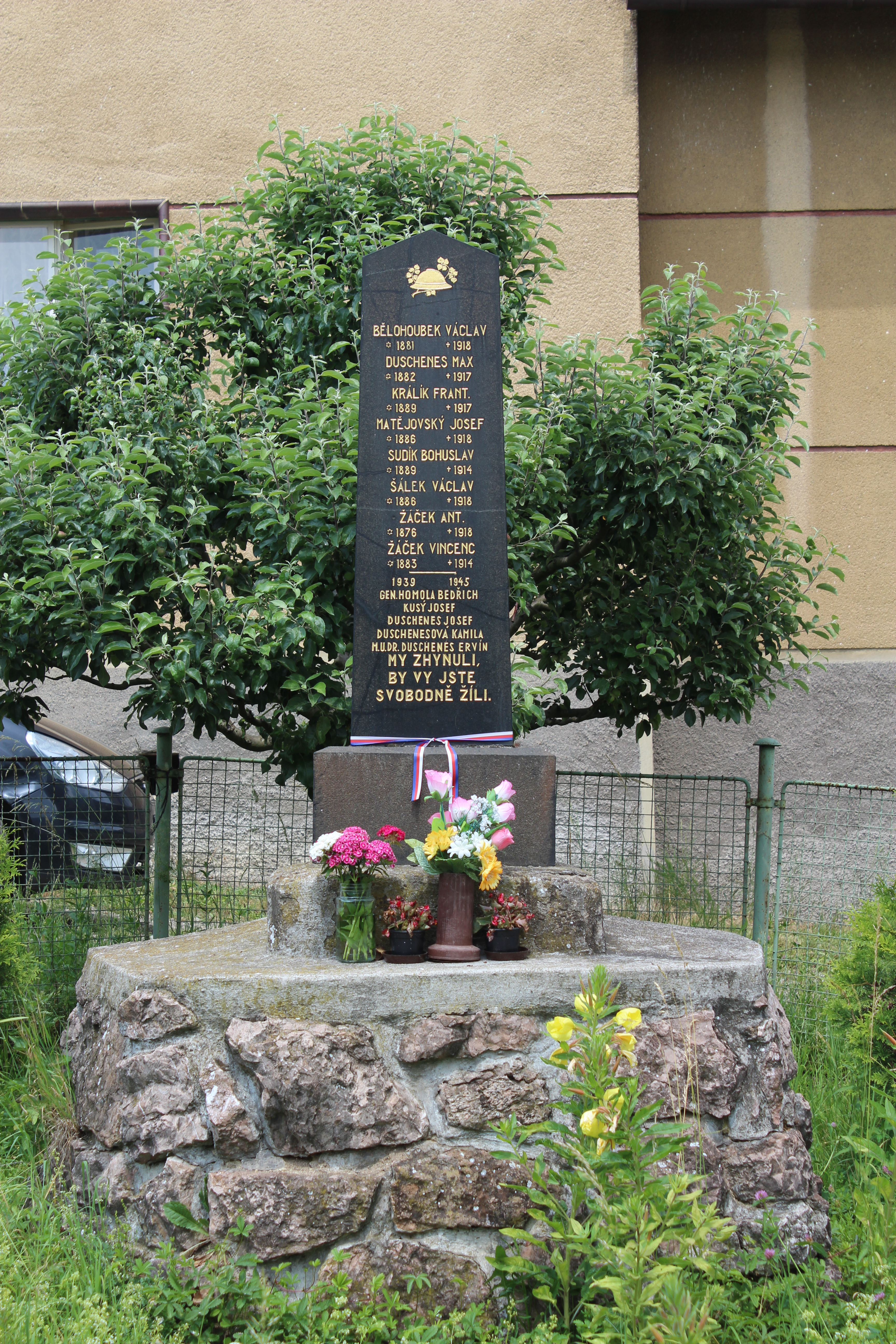 World War memorial in Běleč village (Liteň municipality, Beroun District, Czech Republic.